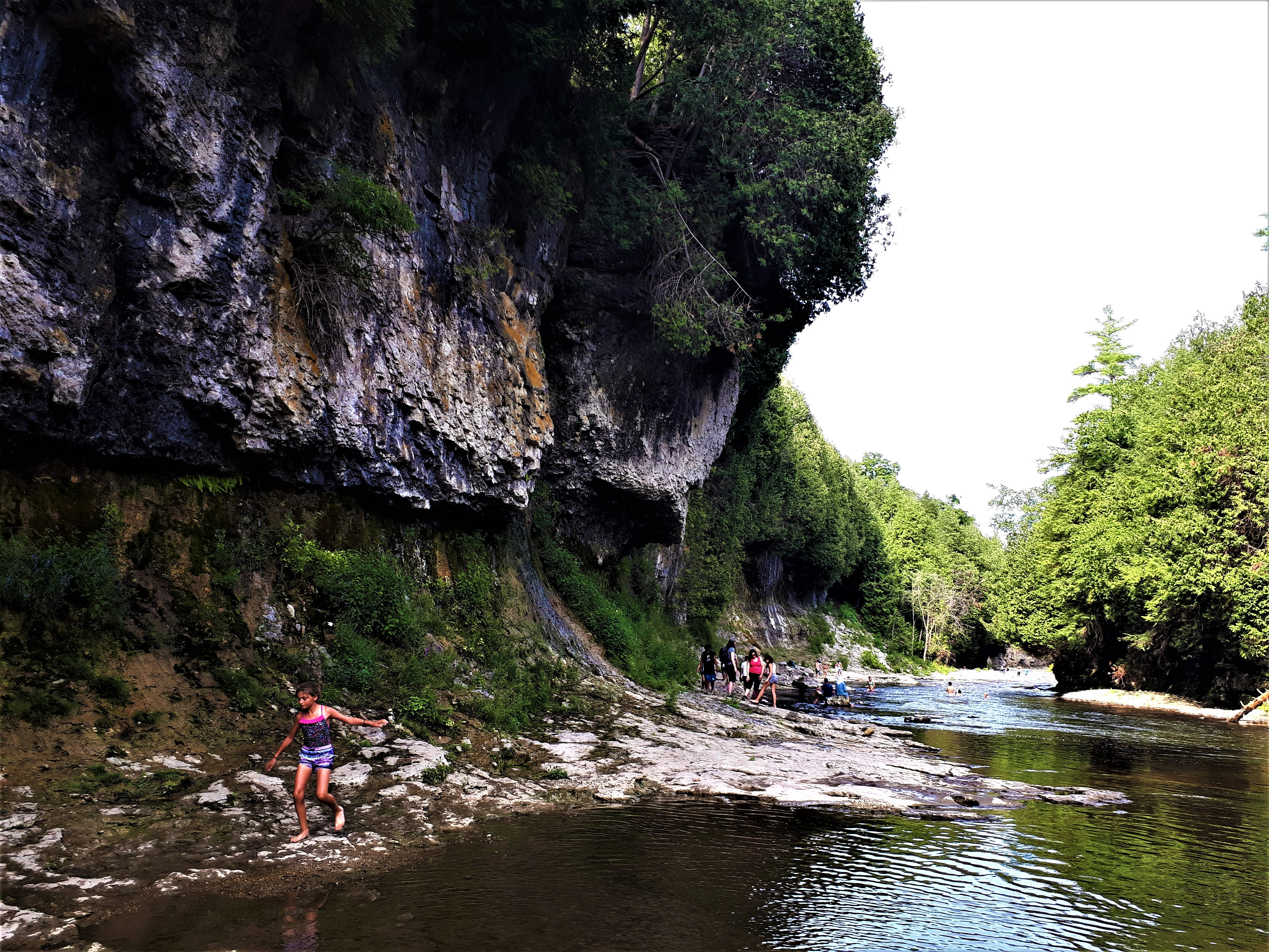 Elora Gorge Conservation Area- Elora Gorge and Grand River- Elora-Ontario This photo was taken in a protected area in Canada, Wikidata item Elora Gorge (Q5367207)